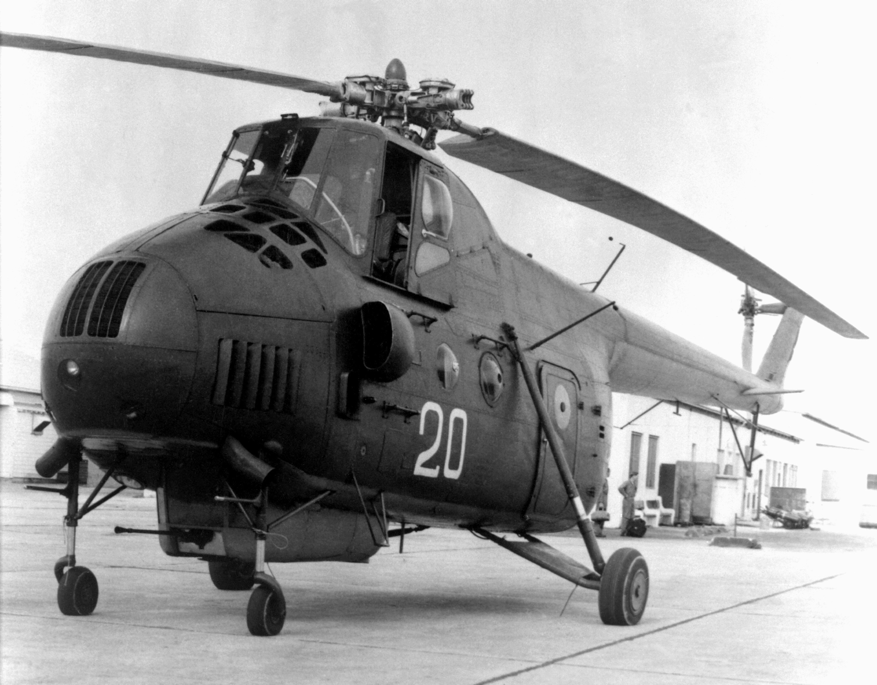 A left front view of a Soviet Mi-4 Hound helicopter.